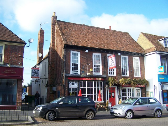 Joiners Arms Pub, West Malling On 64 High Street.